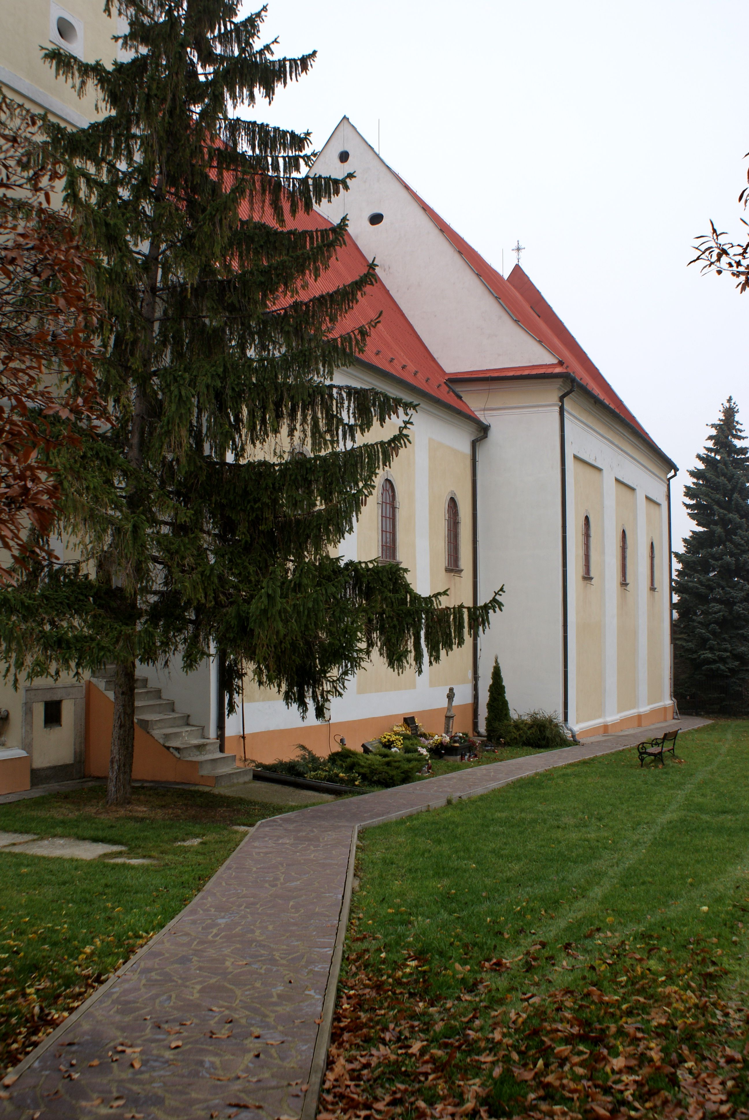 Šenkvice. Slovakia, church as seen throught the iron lattice